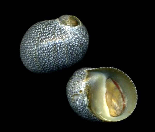 Clithon retropictis (von Martens, 1879), a nerite snail from the faomily Neritidae; Japan